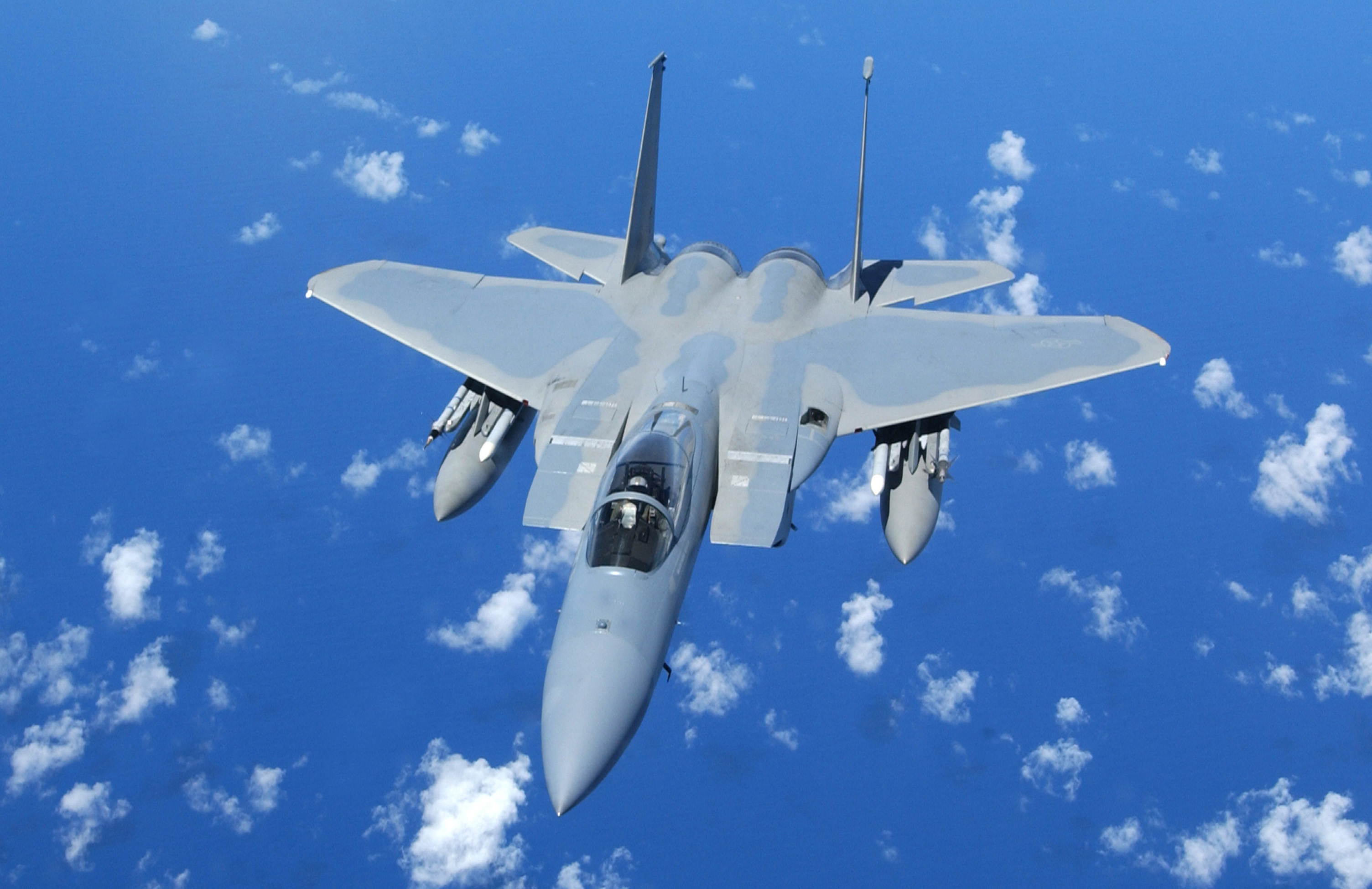 A U.S. Air Force F-15C Eagle aircraft from the 44th Fighter Squadron prepares for aerial refueling from a KC-135 Stratotanker aircraft from the 909th Air Refueling Squadron as part of Exercise Beverly High 06-03 at Kadena Air Base, Japan, on Sept. 12, 2006.